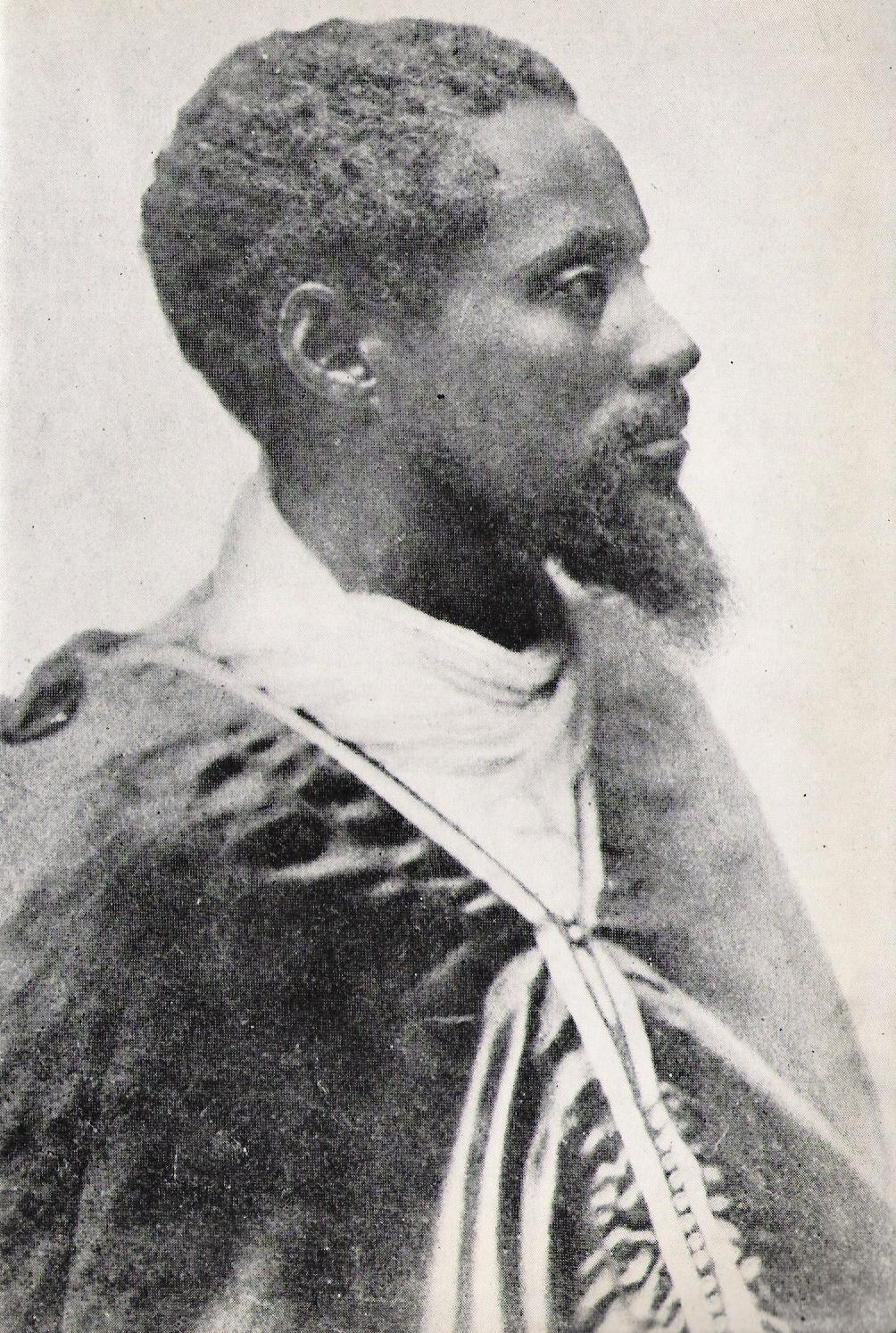 Ras Makonnen Wolde Mikael (1852-1906)